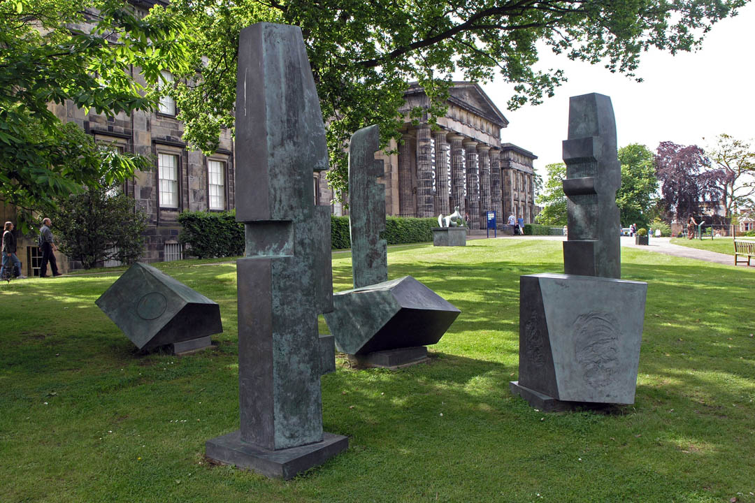 Scottish National Gallery of Modern Art, sculptures in the grounds. Taken in 2004 by myself with an Olympus C8080W.